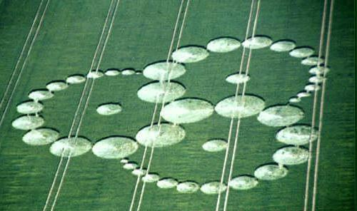 A typical crop circle (in the form of a Triskelion composed of circles).